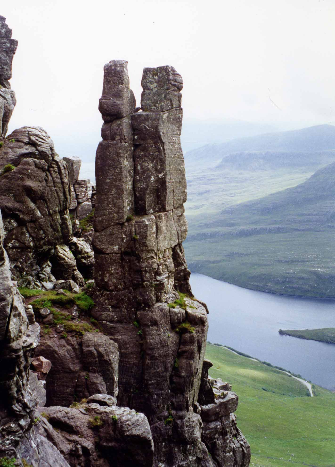 Personal picture taken by Mick Knapton